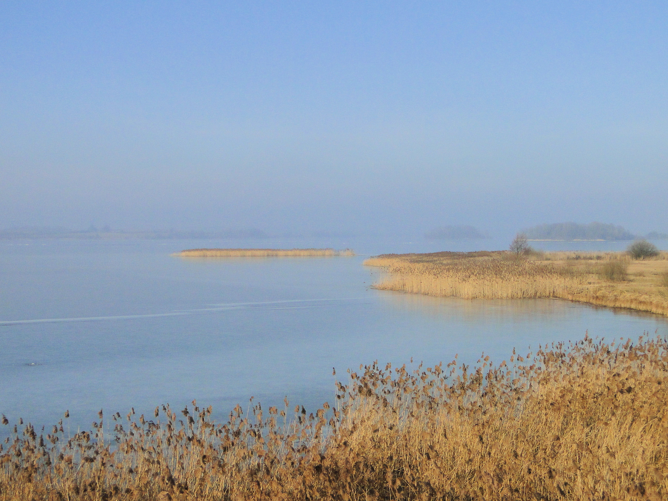 View from view tower in nature reserve Krakower Obersee in Glave, district Güstrow, Mecklenburg-Vorpommern, Germany